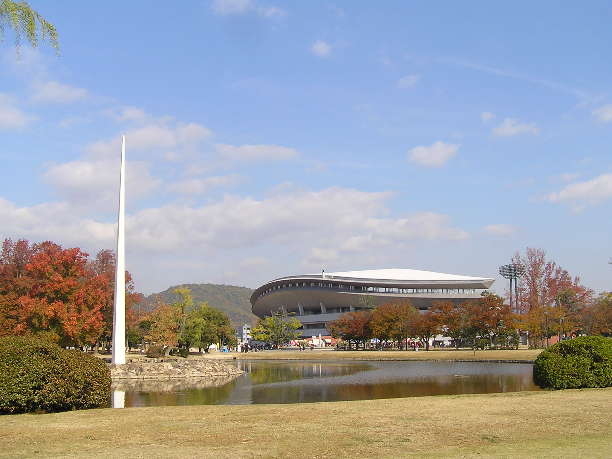 Momotaro stadium looked at from the south